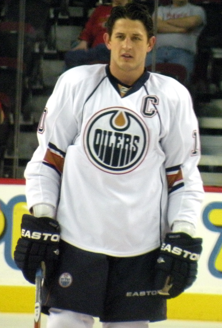 Edmonton Oilers captain Shawn Horcoff prior to a National Hockey League game against the Calgary Flames.